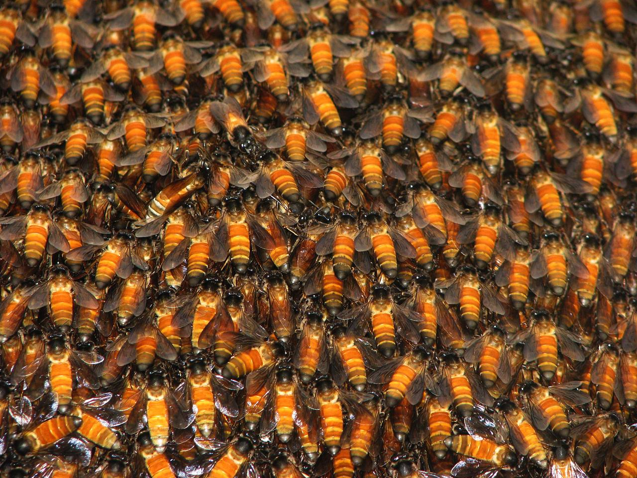 Apis dorsata. This was from my balcony.